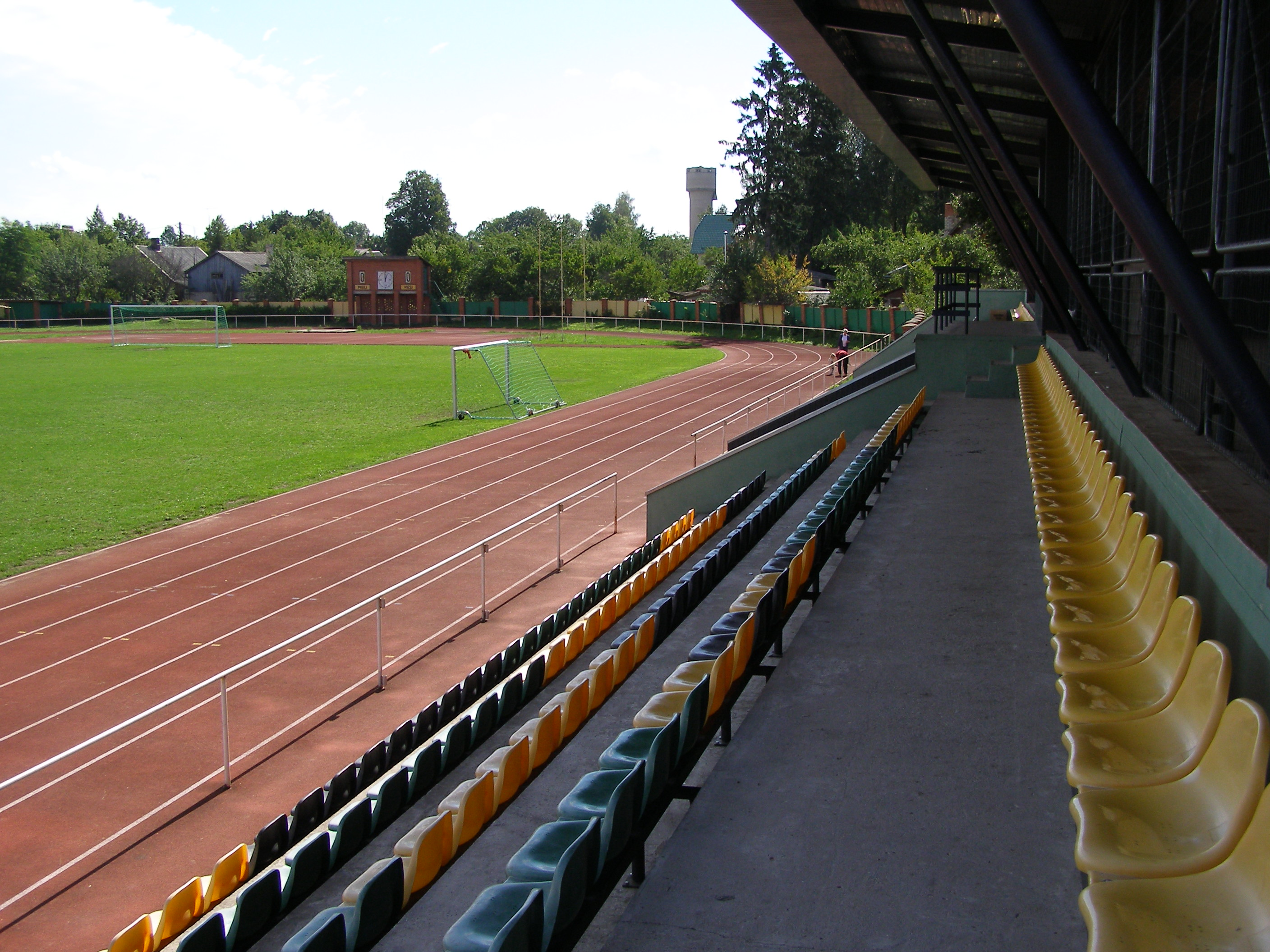 Staduim in Preiļi, Latvia